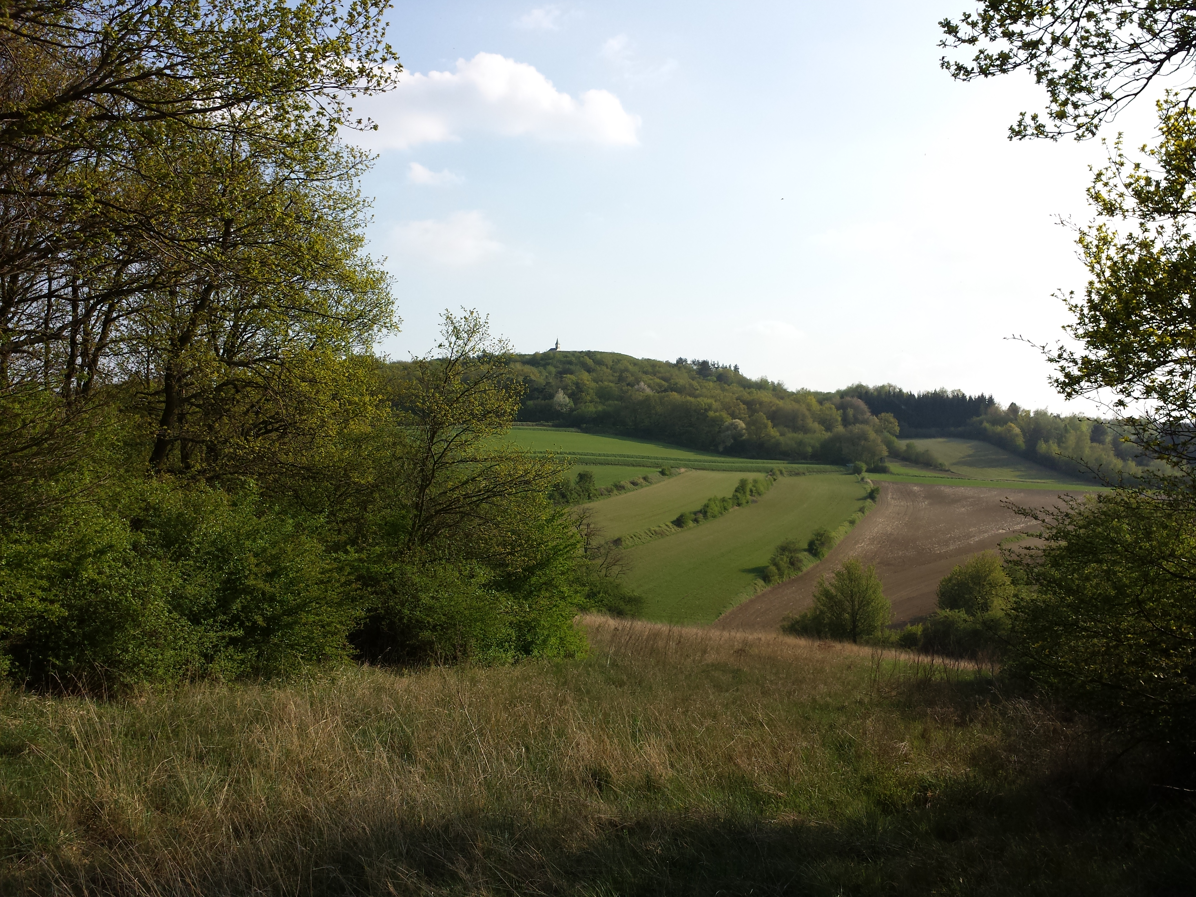 Location: Michelberg, view from Grillenberg, district Korneuburg, Lower Austria - ca. 400 m a.s.l.